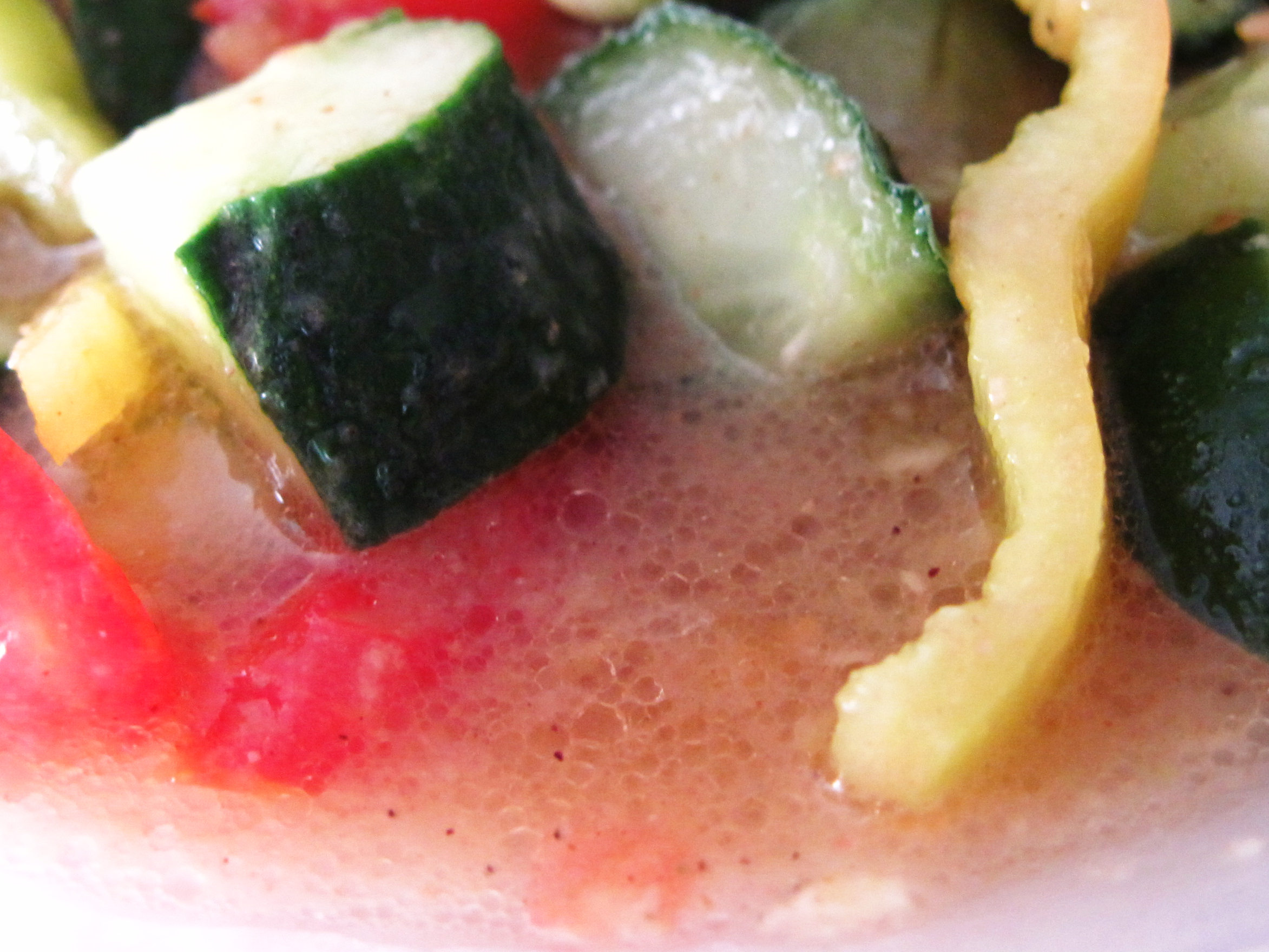 Vinaigrette dressing with a chopped salad of tomato, yellow bell pepper and cucumber